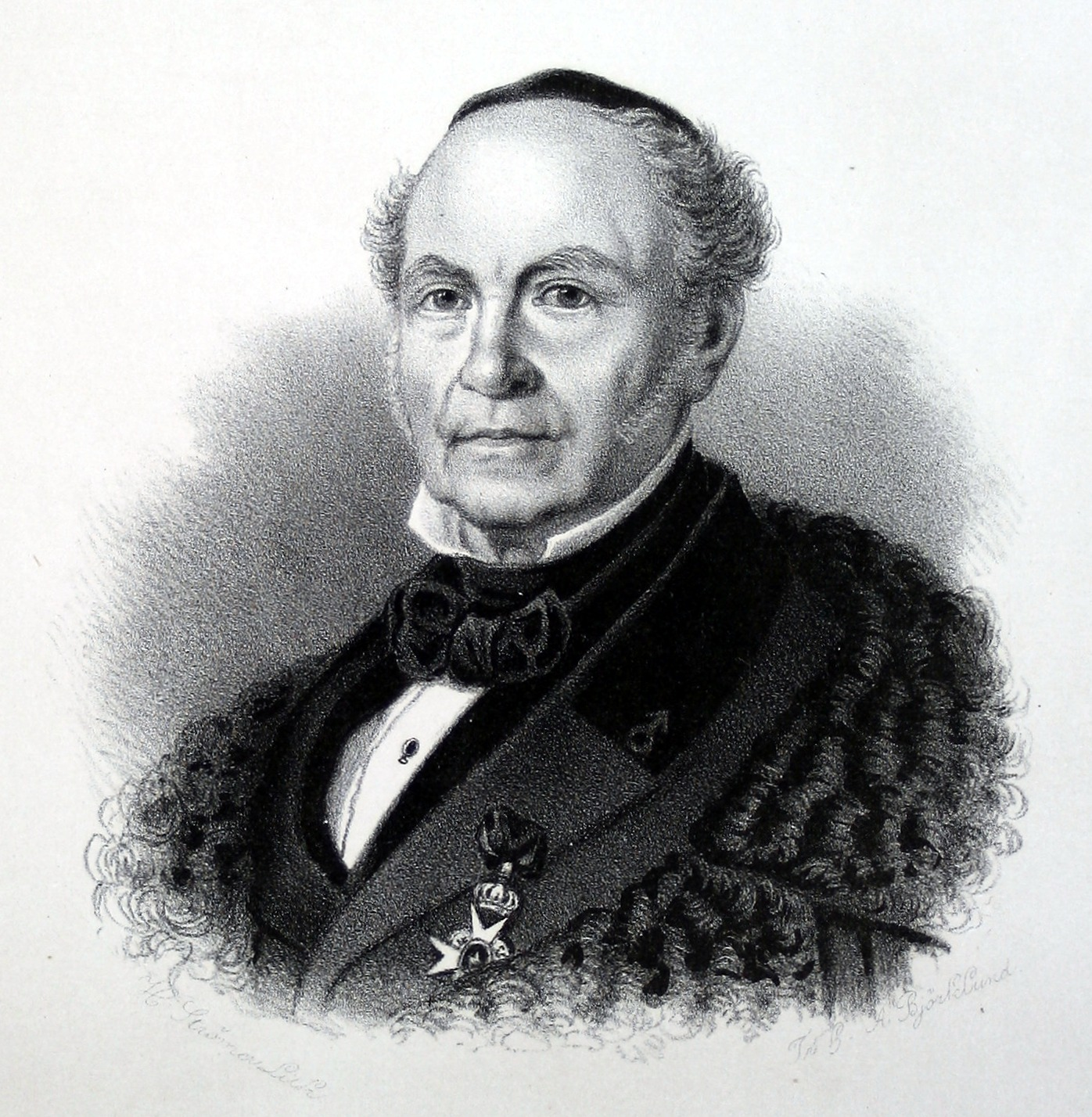 Portrait of Gustaf Myhrman from the book "Svenska industriens män" (1875)